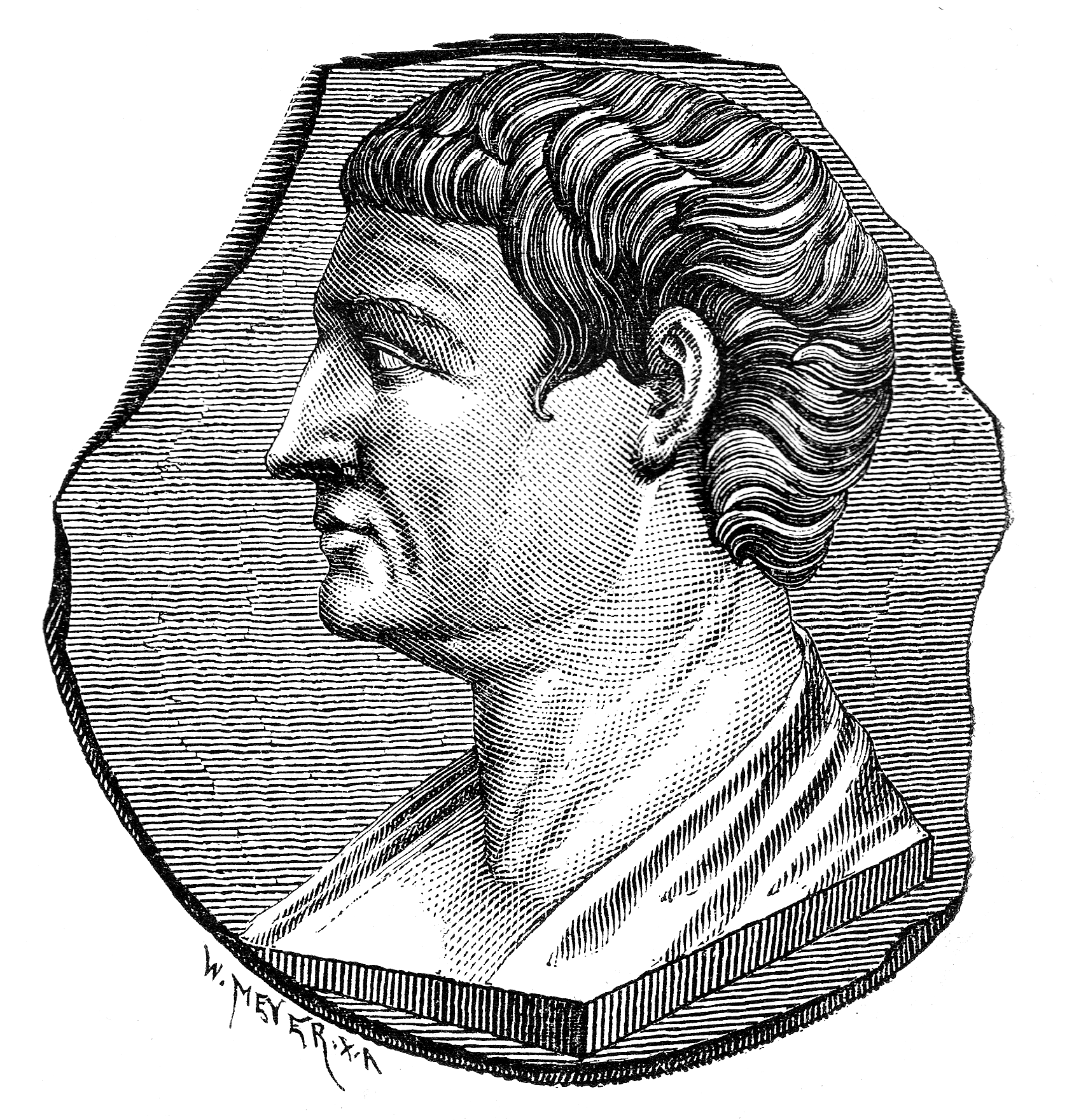 Illustration from Illustrerad verldshistoria by E. Wallis, volume I. "Aristotle"